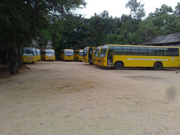 This shows the School Buses in the BUS BAY